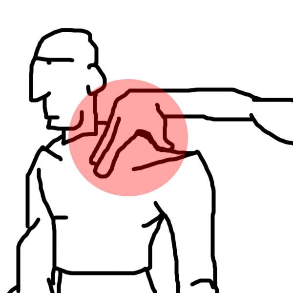 Schematic drawing of "Vulcan Nerve Pinch" from Star Trek original series.